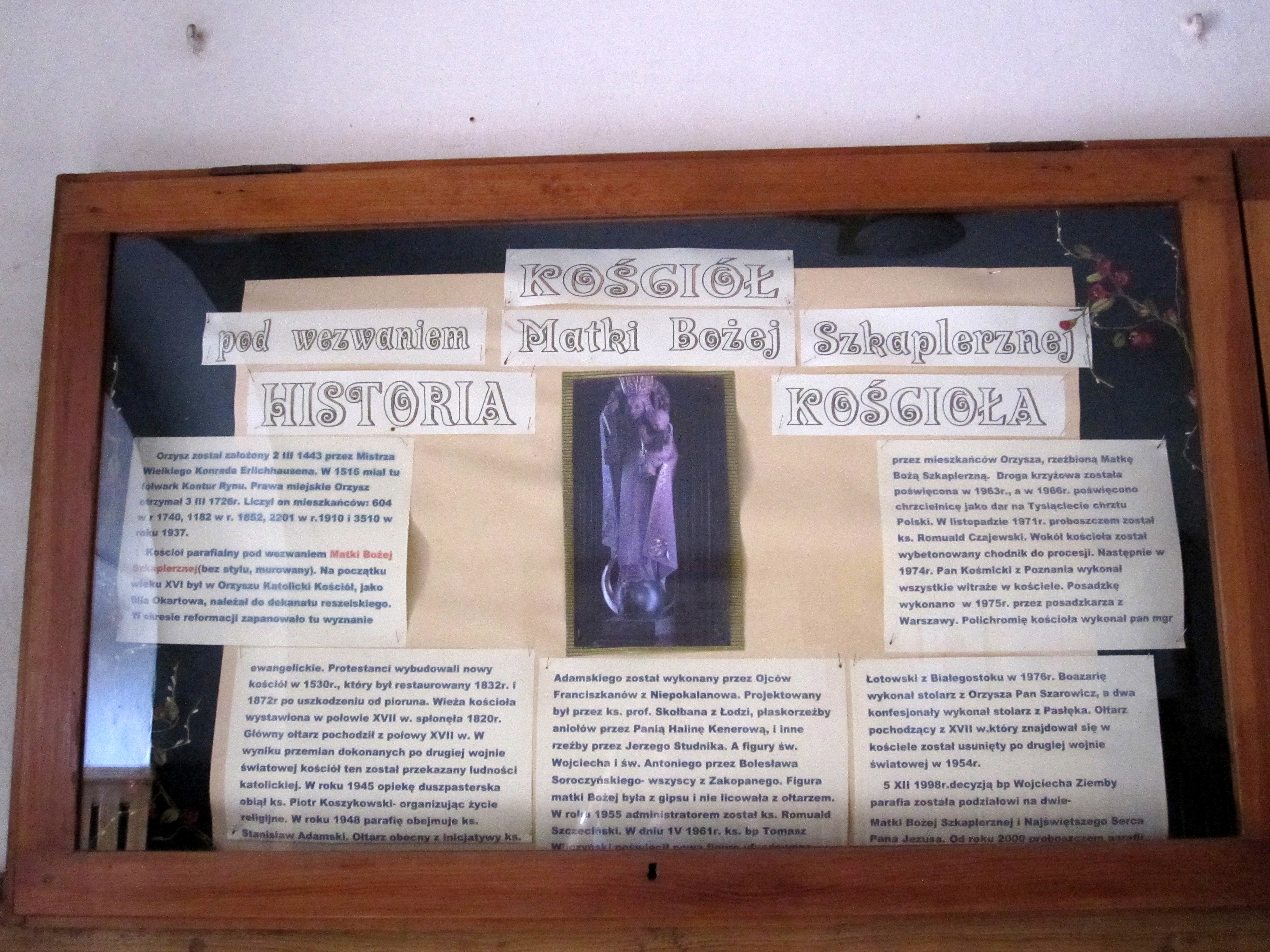 Church of Our Lady of the Scapular in Orzysz